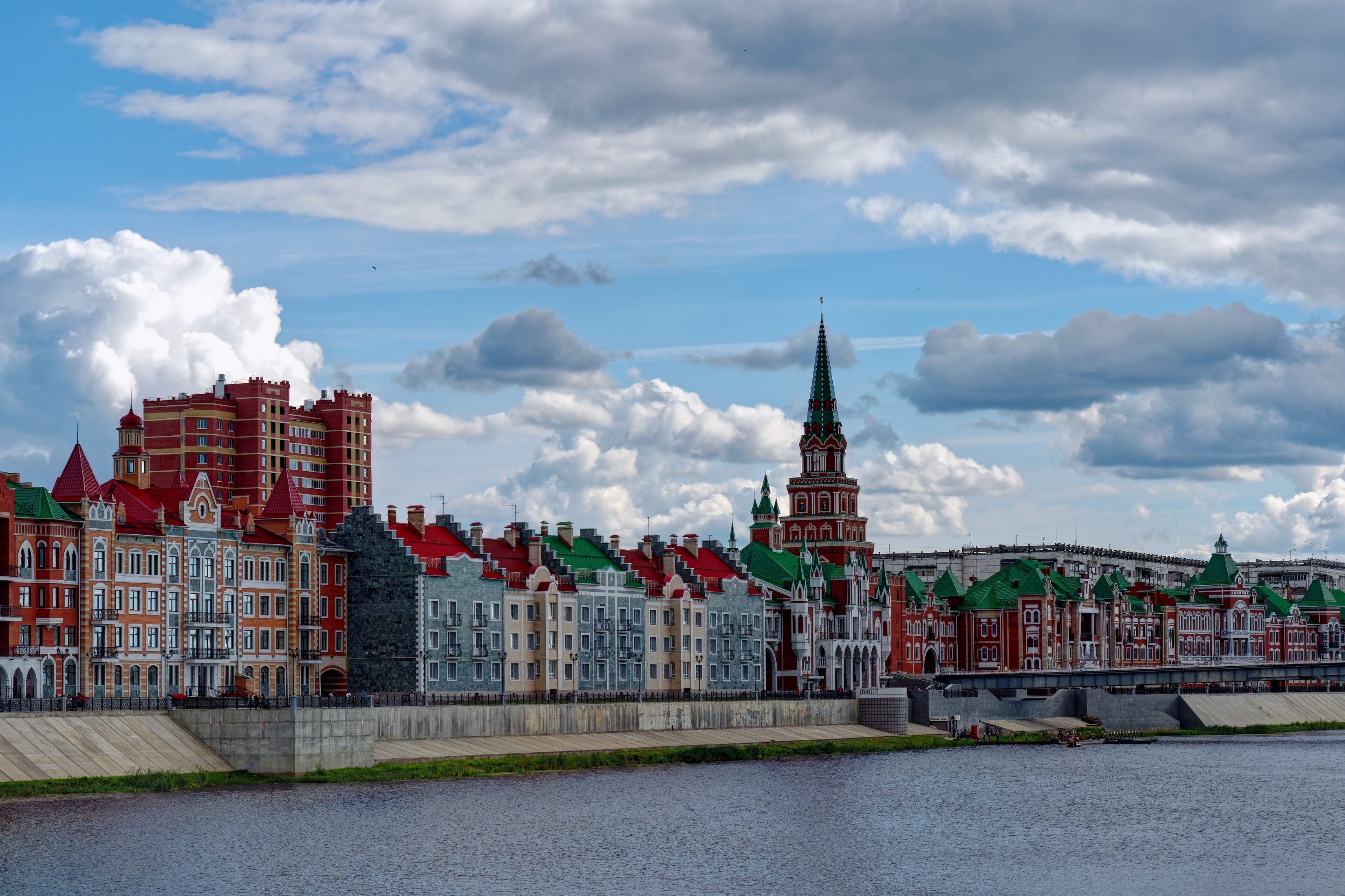 Yoshkar-Ola